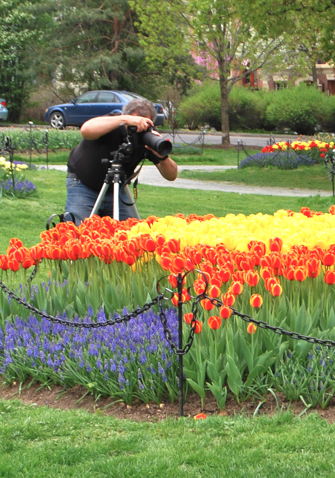 A photographer taking photographs during the tulip festival at Washington Park in Albany, New York, United States. Tulips and grape hyacinths are visible in the flower bed.